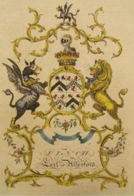 Arms of Heneage Finch, 3rd Earl of Aylesford (1715-1777), print from Alexander Jacob’s three volume work, “A Complete English Peerage,” London, 1766-1769. Arms: Quarterly 1st & 4th: Argent, a chevron between three griffins passant sable (Finch); 2nd & 3rd: Argent, a chevron vair between three demi-lions rampant gules (Fisher of Great Packington, Warwickshire). Crest: A griffin passant sable. Supporters: dexter: A griffin sable ducally gorged or; sinister: A lion or ducally gorged azure[1]